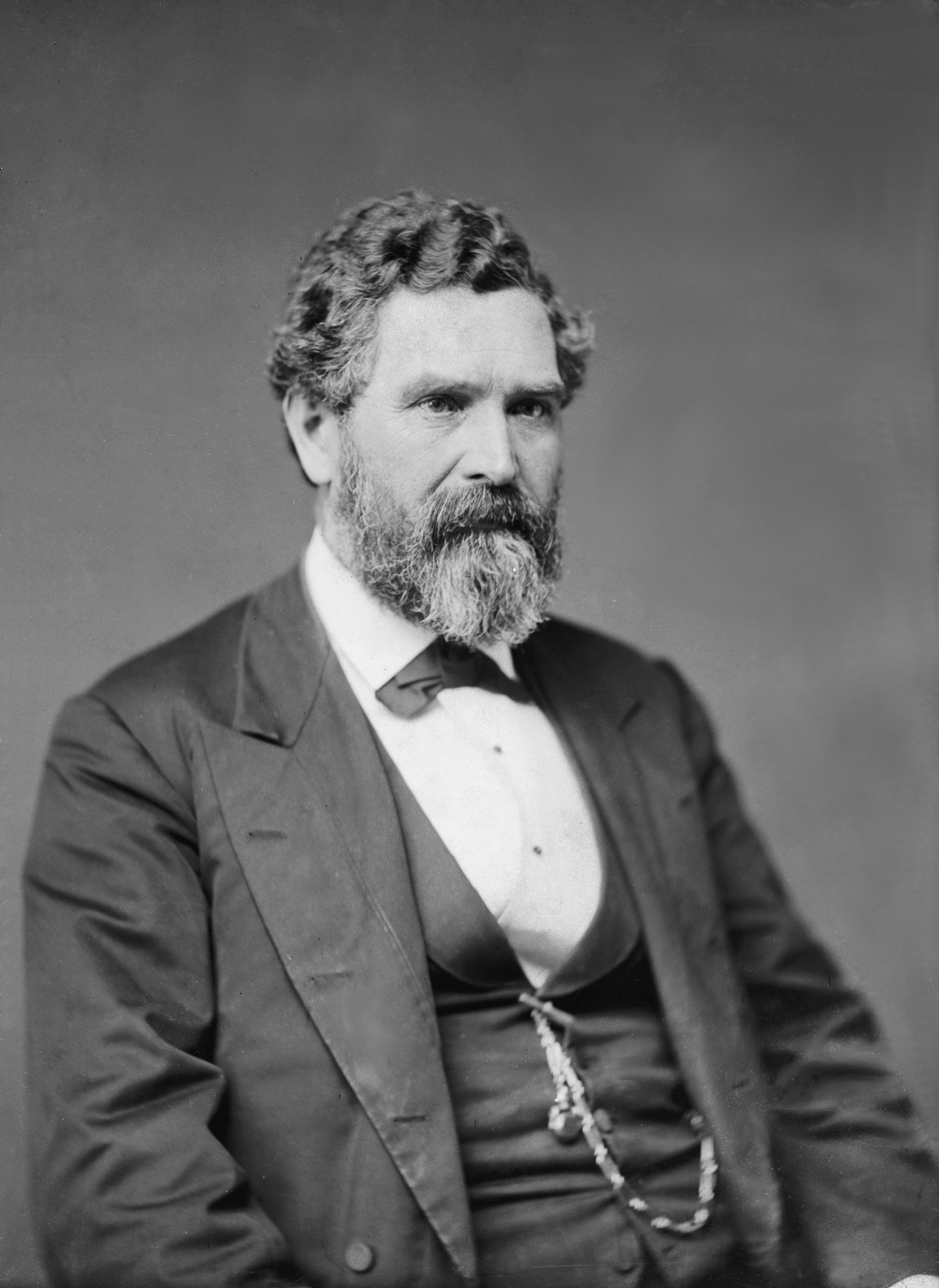 James B. Beck. Library of Congress description: "Beck, Hon. James Burnie of Ky"